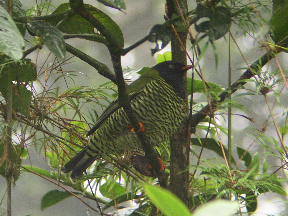 Barred Fruiteater